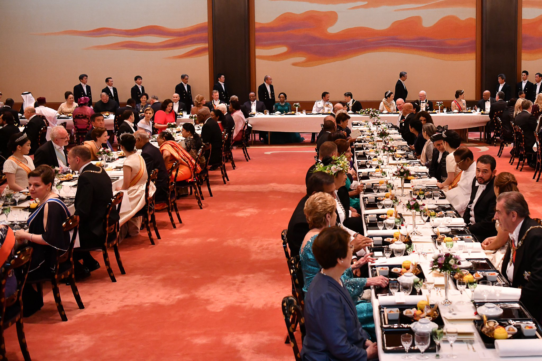 Court Banquets after the Ceremony of the Enthronement